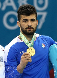 Wrestling at the 2017 Islamic Solidarity Games, Greco-Roman 80 kg podium